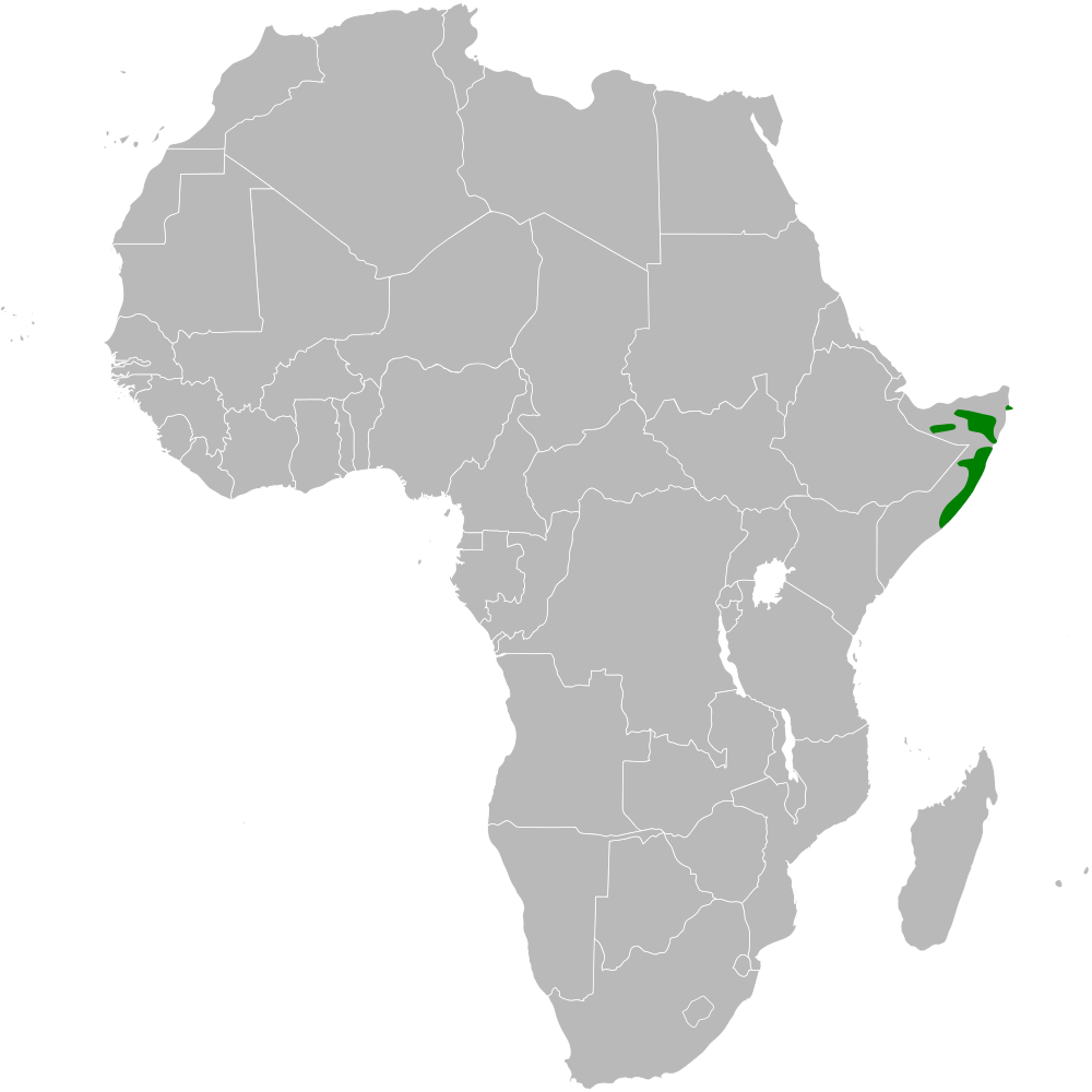 Mirafra somalica distribution map; using BlankMap-Africa.svg, based on Keith, Stuart; Urban, Emil K.; Fry, C. Hilary (1992). The Birds of Africa, Volume IV. Academic Press. p. 26 Ash, John (1998). Birds of Somalia. Pica Press, Sussex Sinclair, I., Ryan, P. (2010). Birds of Africa south of the Sahara, Chamberlain. p. 340 Ryan, P. (2016). Somali Long-billed Lark (Mirafra somalica). Handbook of the Birds of the World Alive. Lynx Edicions, Barcelona BirdLife Datazone Factsheet (2016)